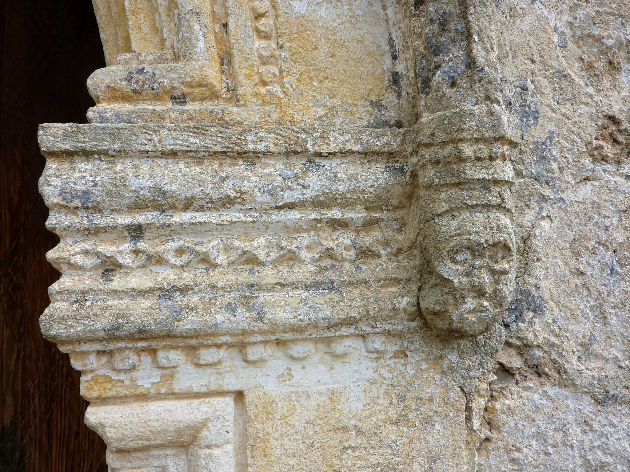 Panagia Kantariotissa